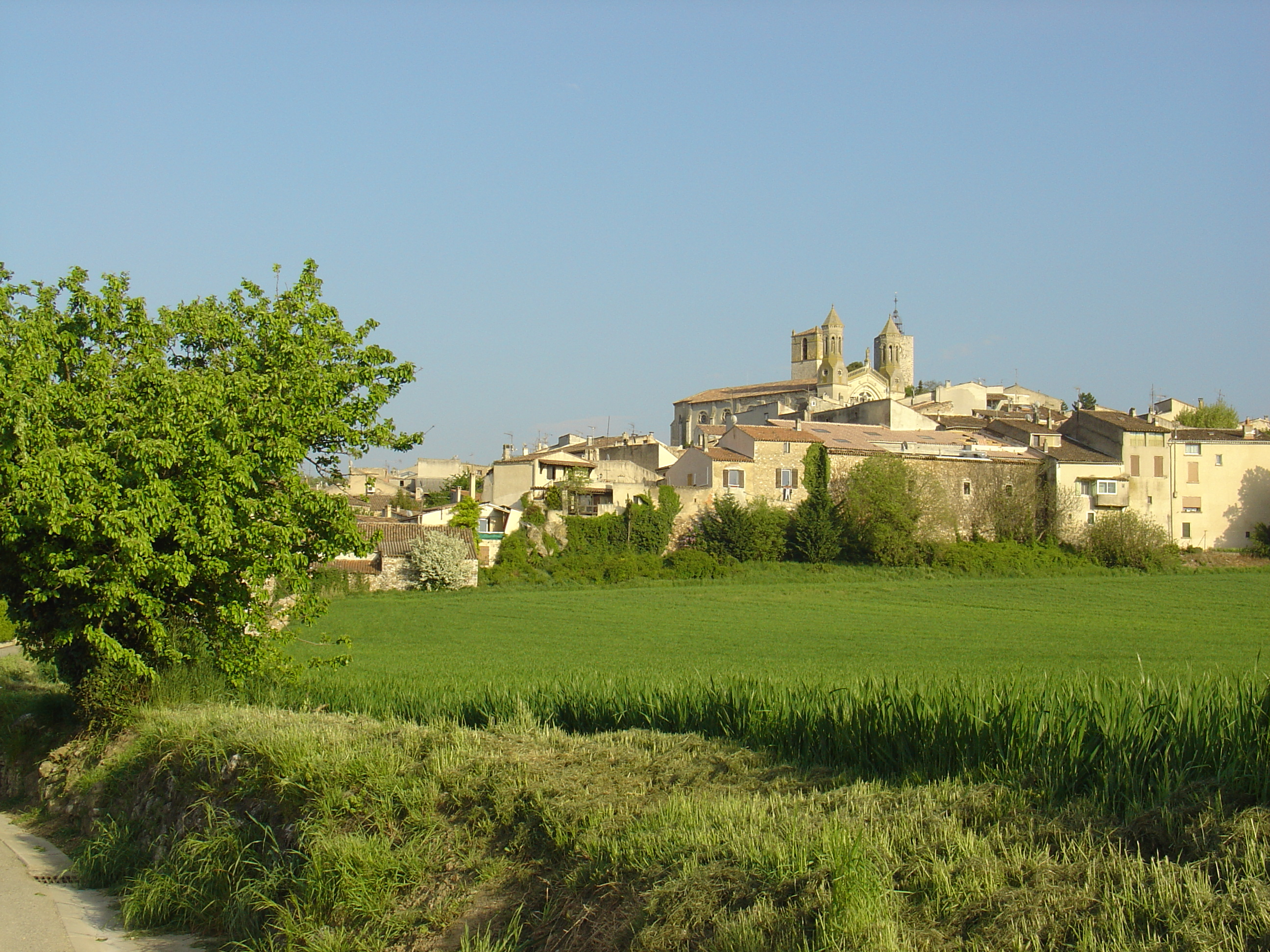 View from Rians (France). The church and the bell-tower